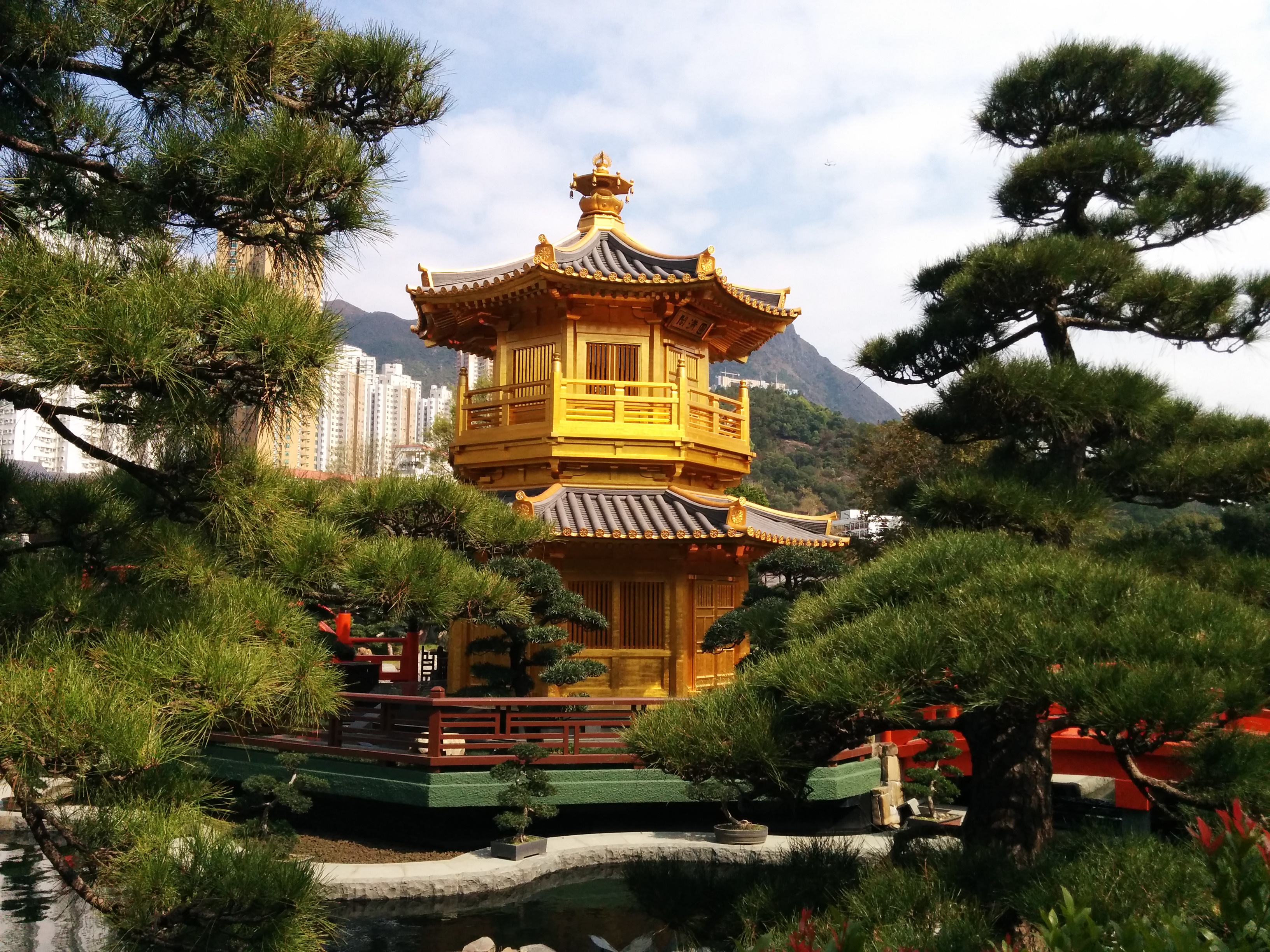 Hong Kong - Chi Lin Nunnery pagoda